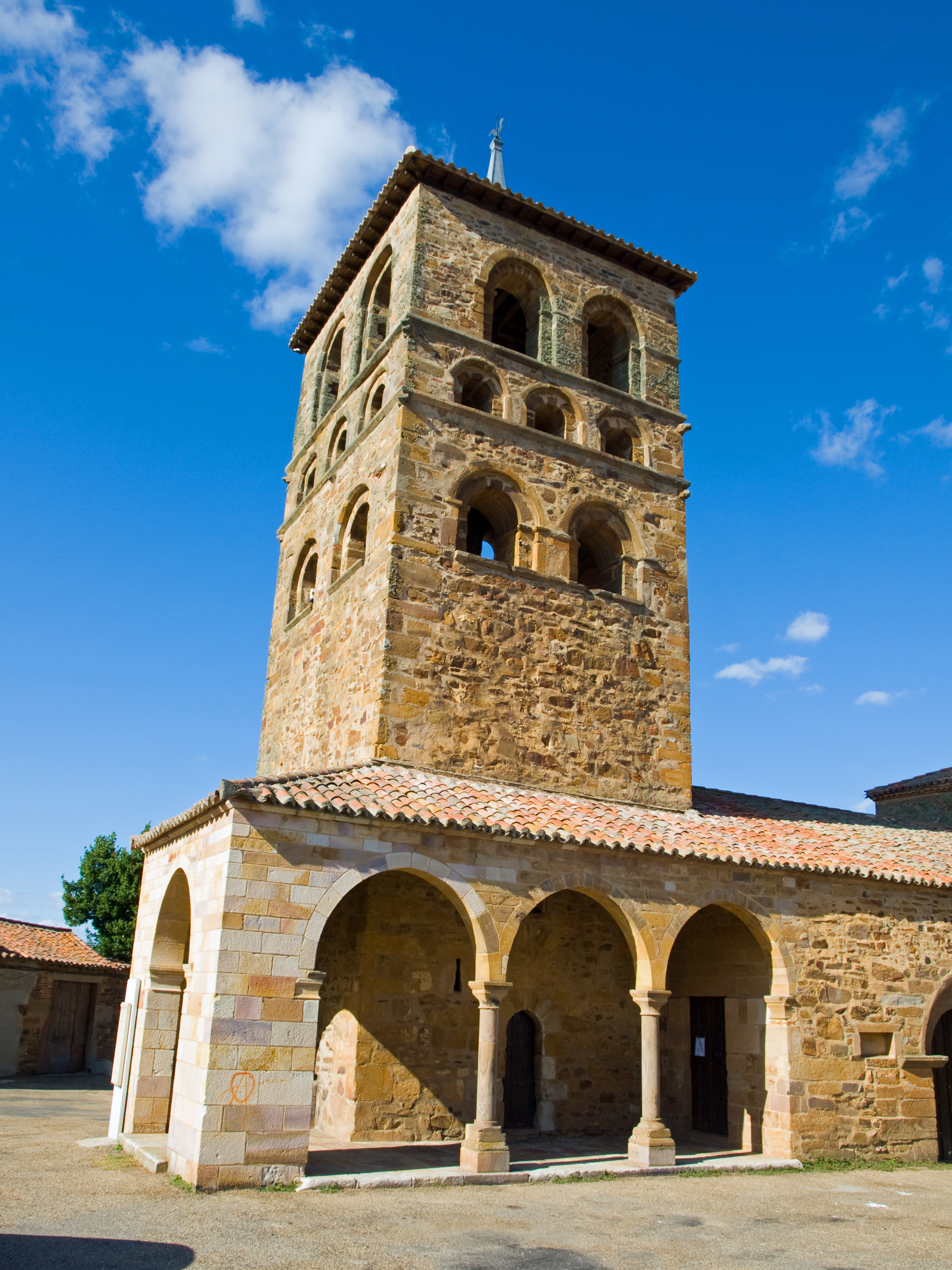 The tower of the church (XII century) in the spanish town of Tabara, Province of Zamora